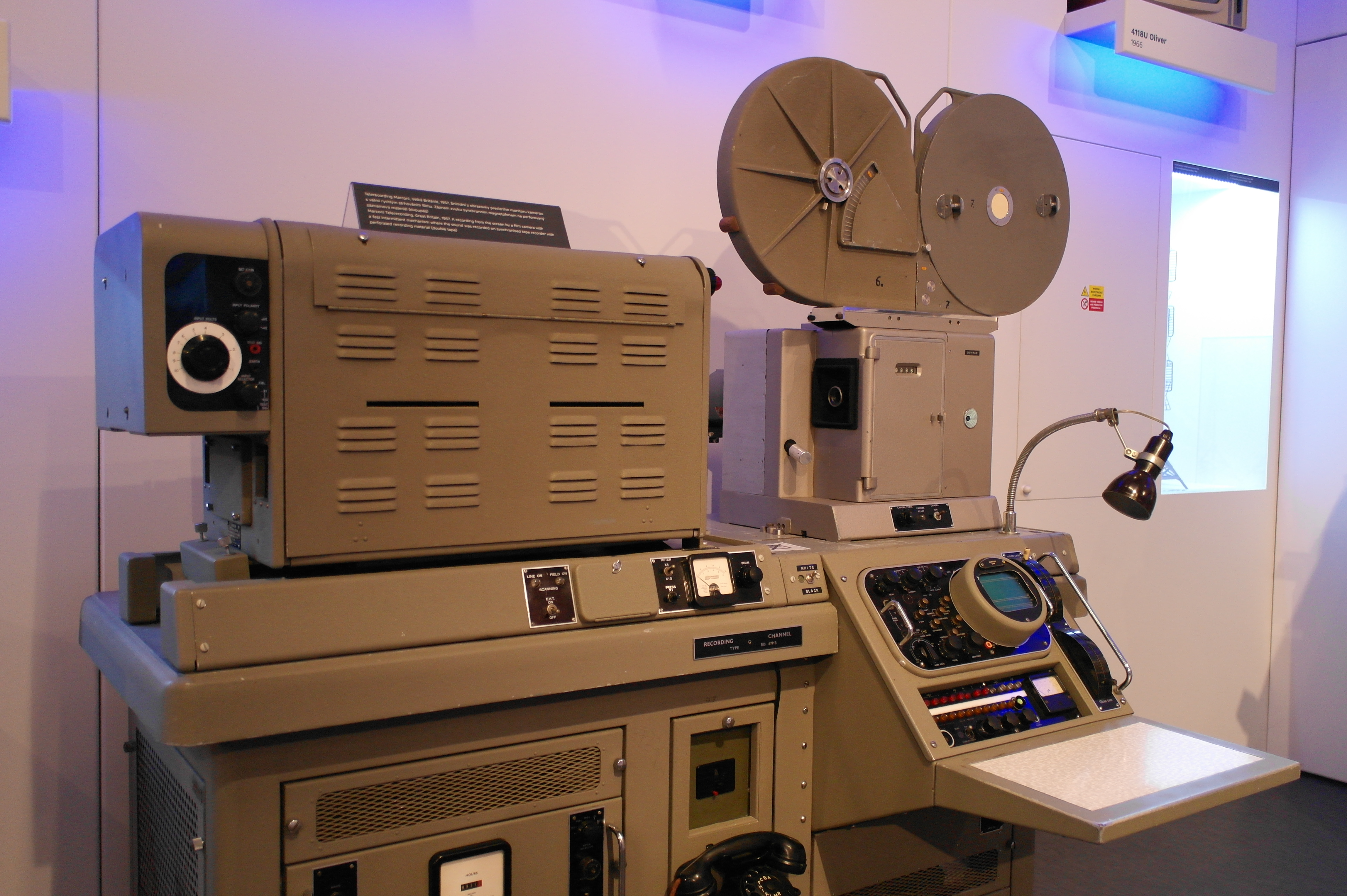 Marconi film telerecorder from the screen with fast intermittent mechanism and independent sound recording to perforated magnetic tape. 1957, National Czech Technological Museum.